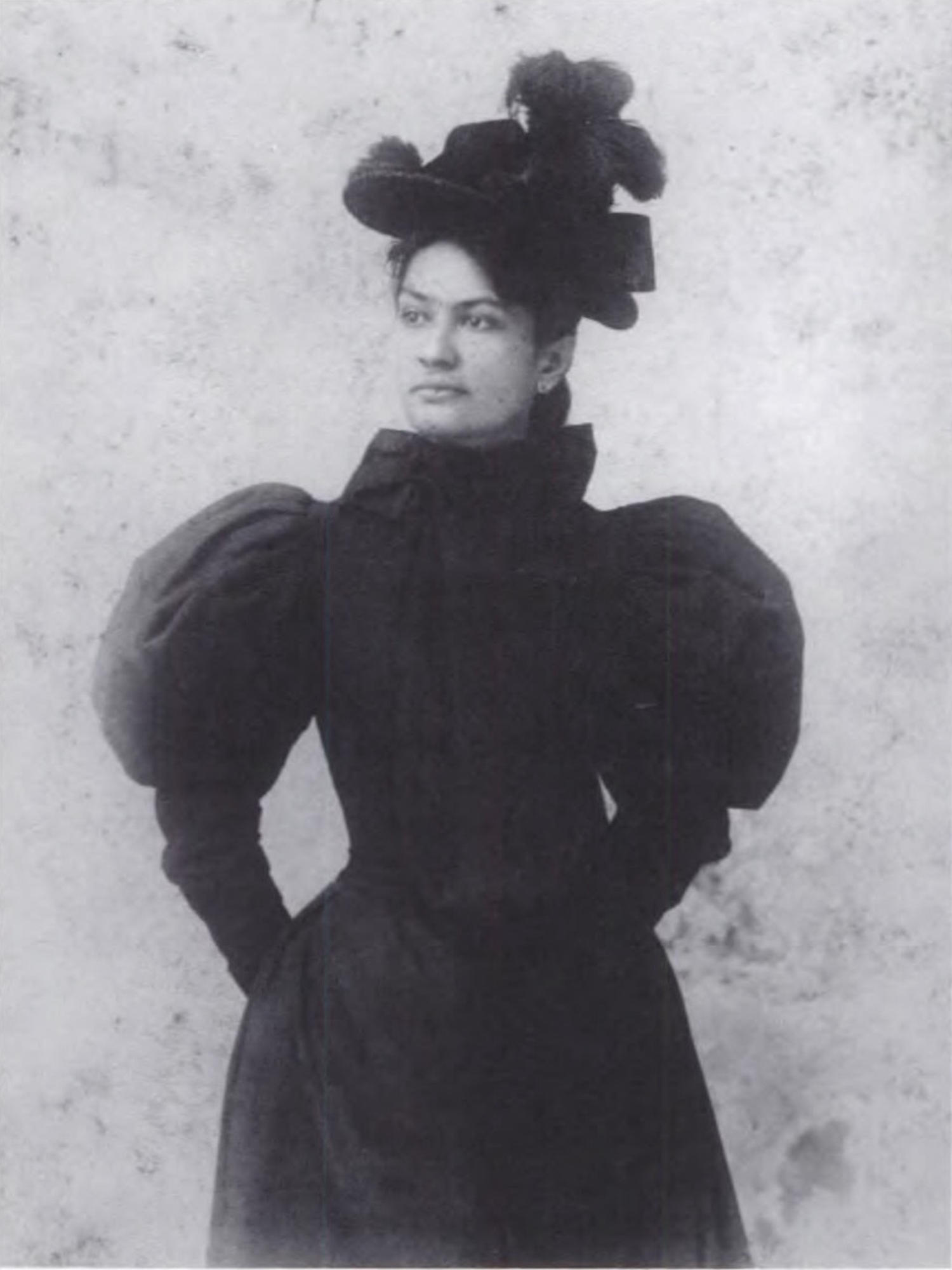 Kini "Jennie" Kapahu Wilson (March 4, 1872 – July 23, 1962) was a Hawaiian hula dancer, musician, and singer. She was recognized as Hawaiʻi's "Honorary First Lady."